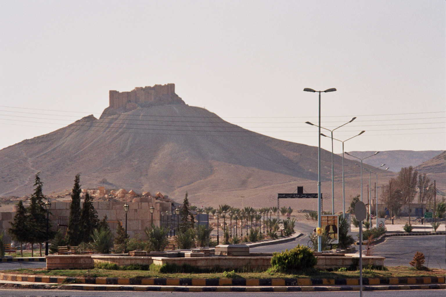 as seen from the edge of the modern town